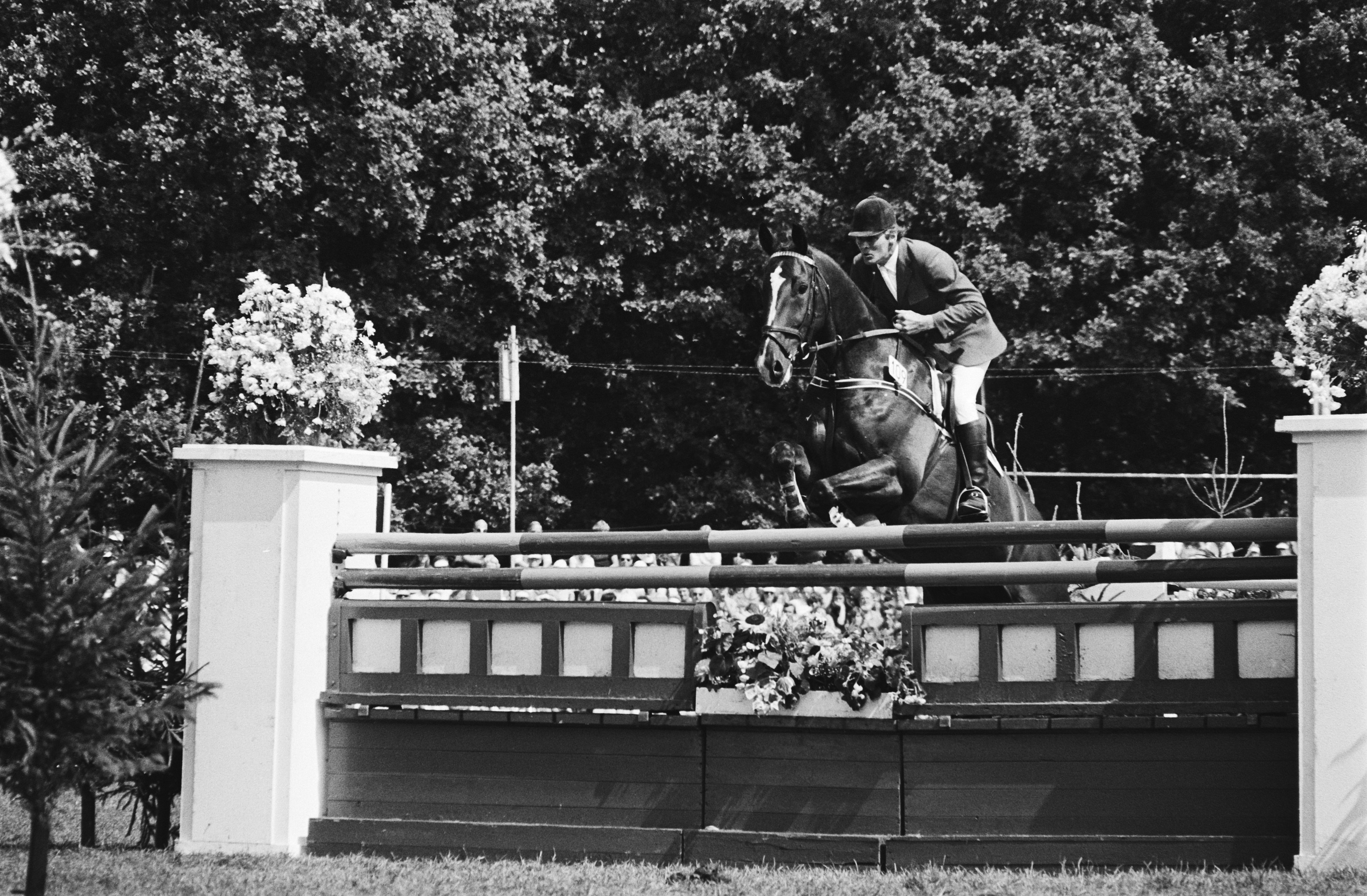 Depicted person: Gerhard Wiltfang – West German equestrian